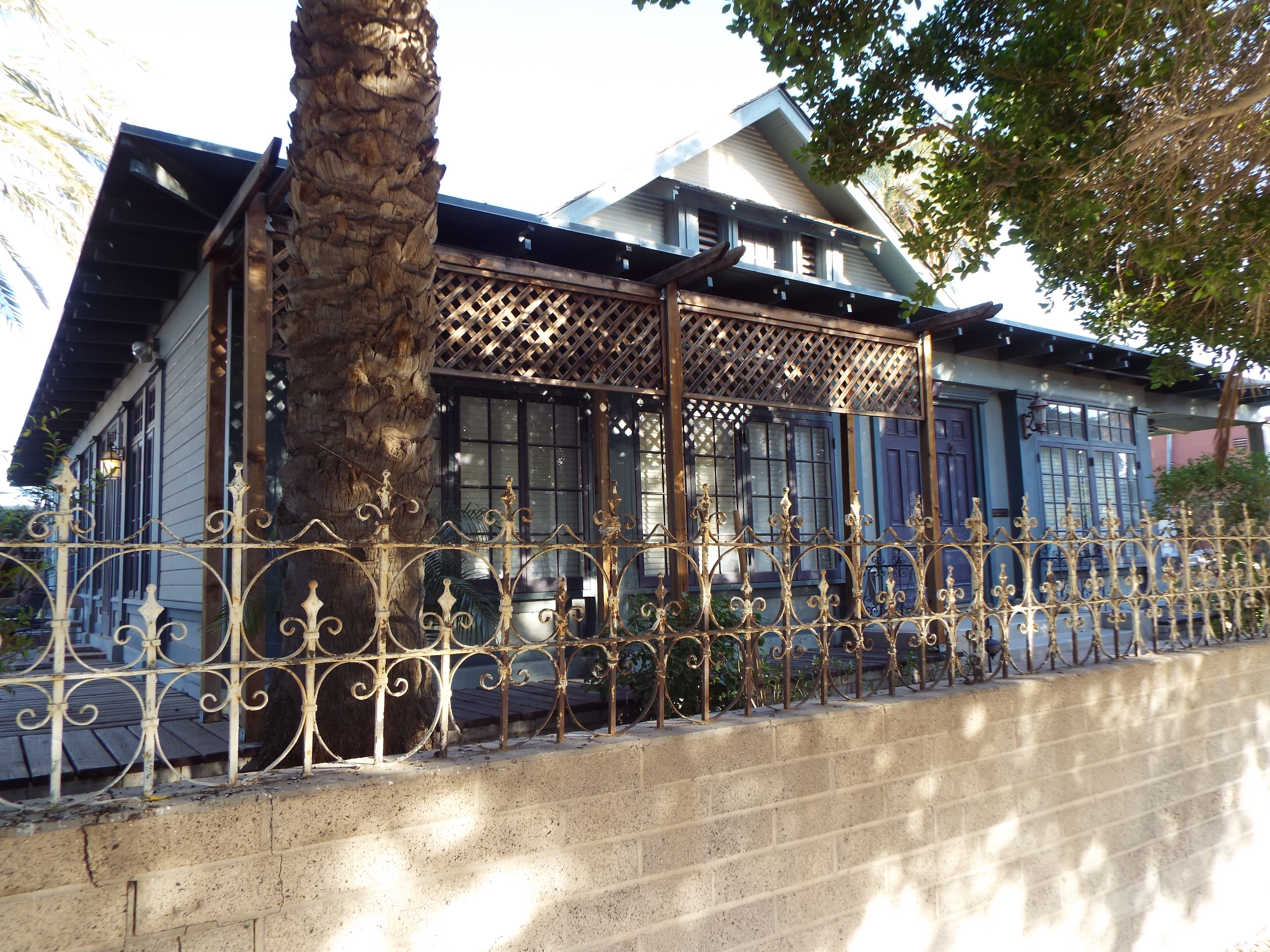 The Caruthers House - Built in 1875 and located at 441 2nd Ave. in Yuma, AZ. It was listed in the National Register of Historic Places on December 7, 1982, ref, #82001628.